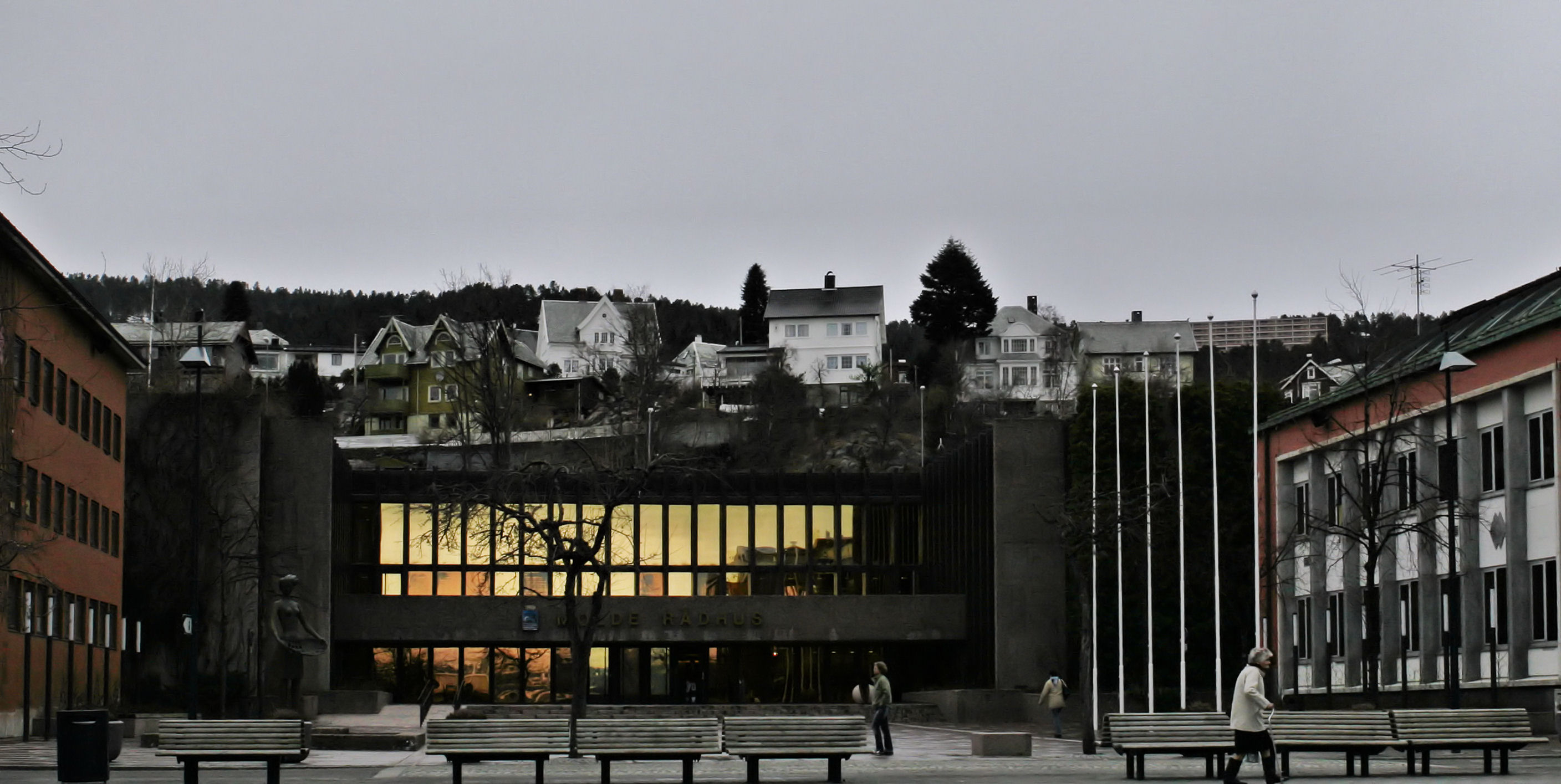 Townhall Molde, Norway. March 2007